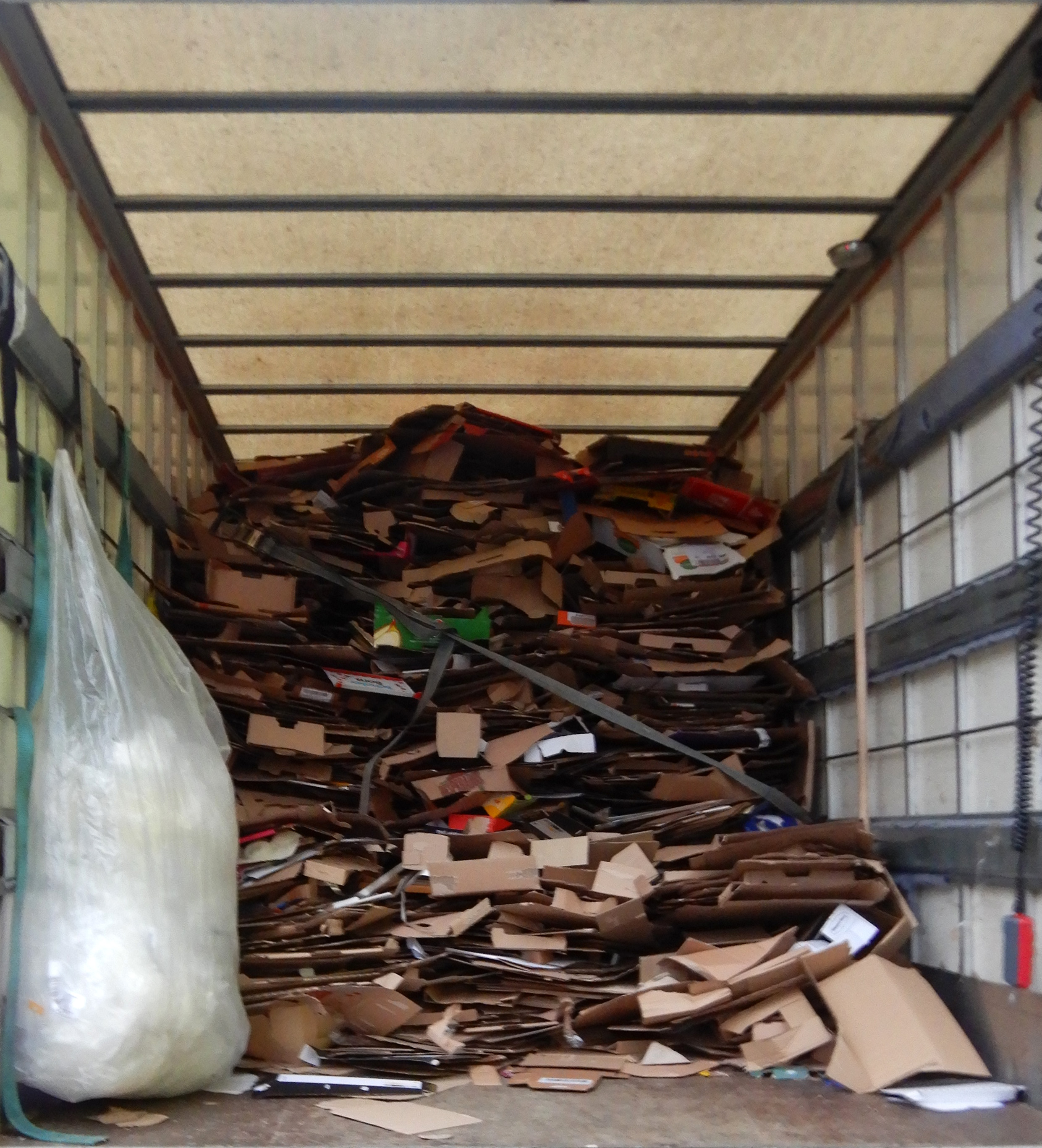 Recovery in a big french city (Lille, northern France) of cartons (bottom of the truck) and of plastics (white bag hanging in the truck, left), here at the exit of a supermarket. The store has no press (which could have reduced the volume of cardboard)